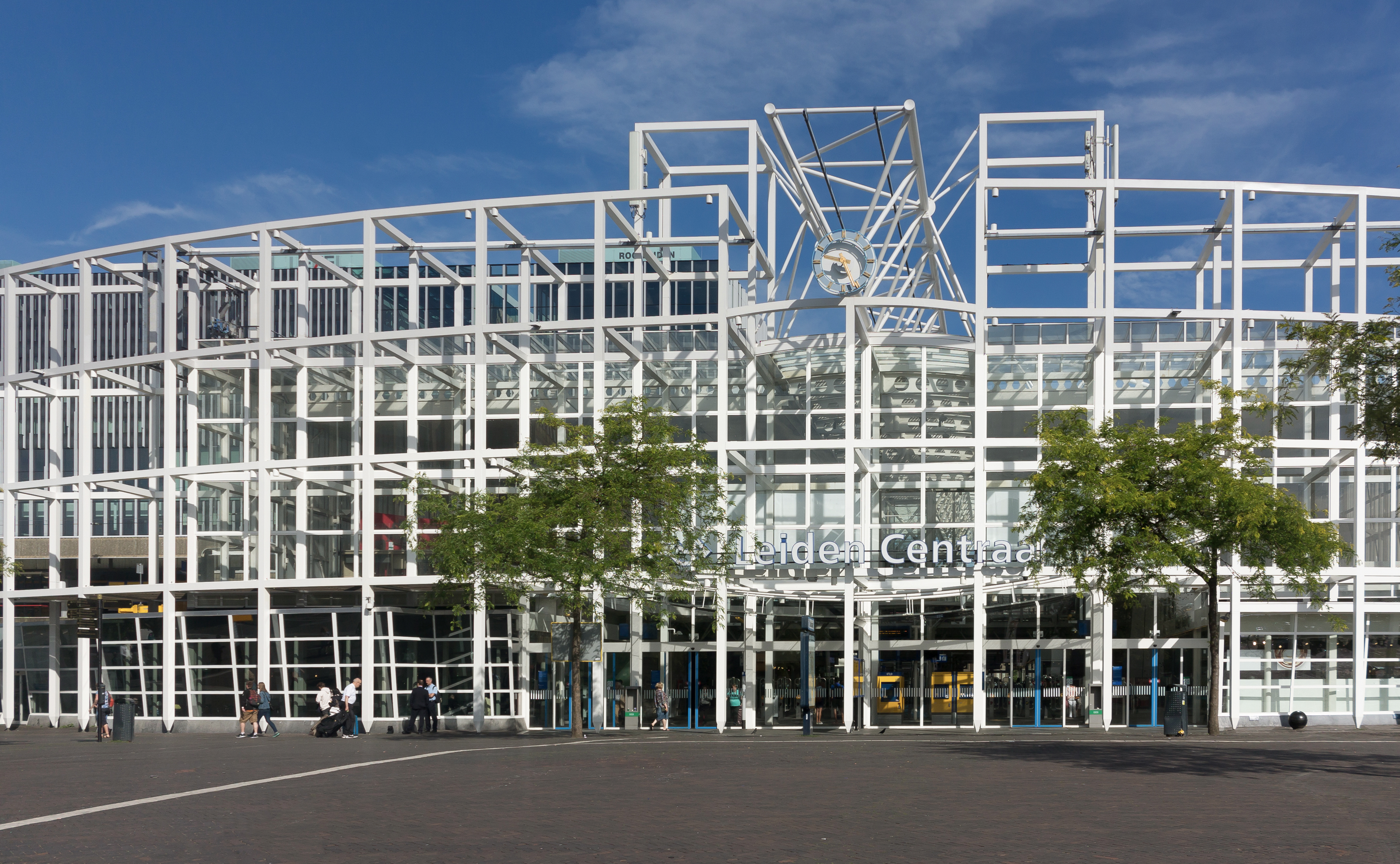 Leiden, entry railway station Leiden Centraal